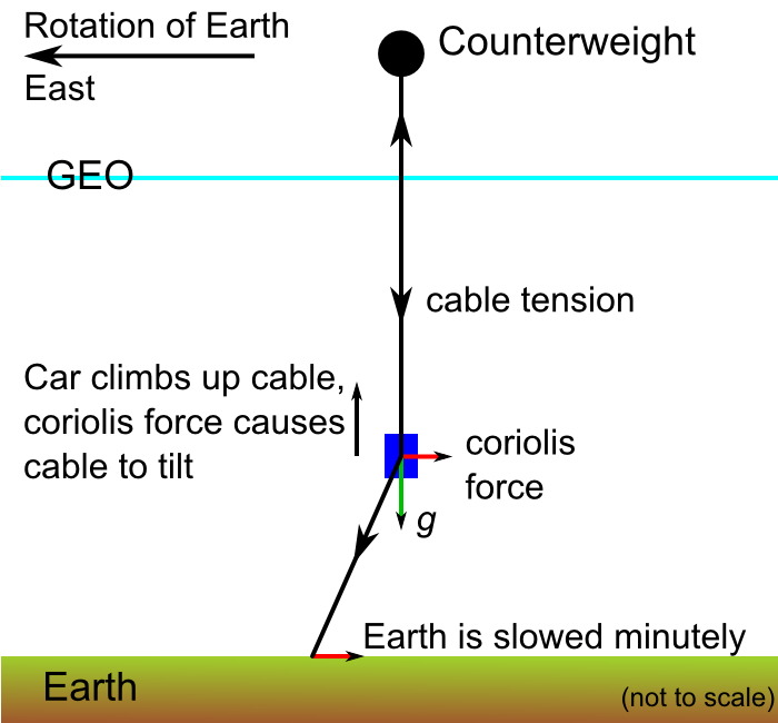 Diagram showing the various forces at play when a vehicle travels up a space elevator